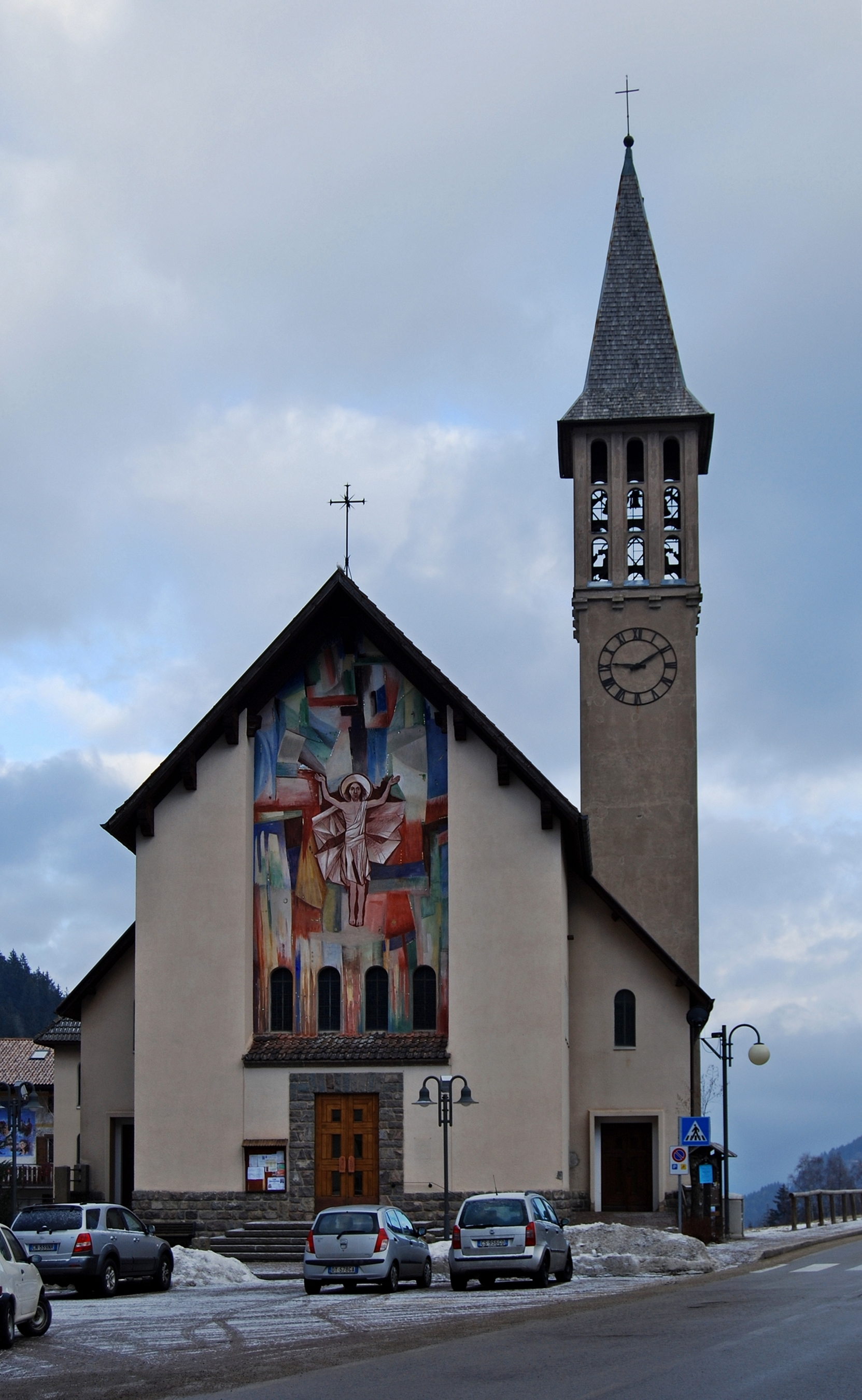 Church in Brusago (part of Bedollo), Trentino-South Tyrol